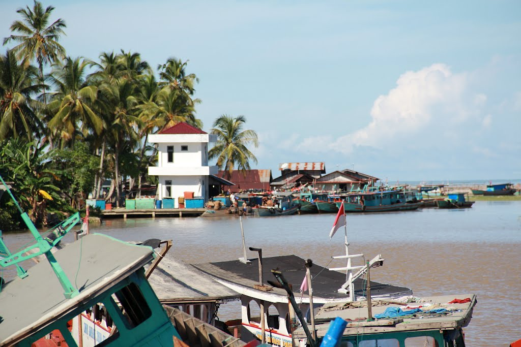 Submerged Market Barus